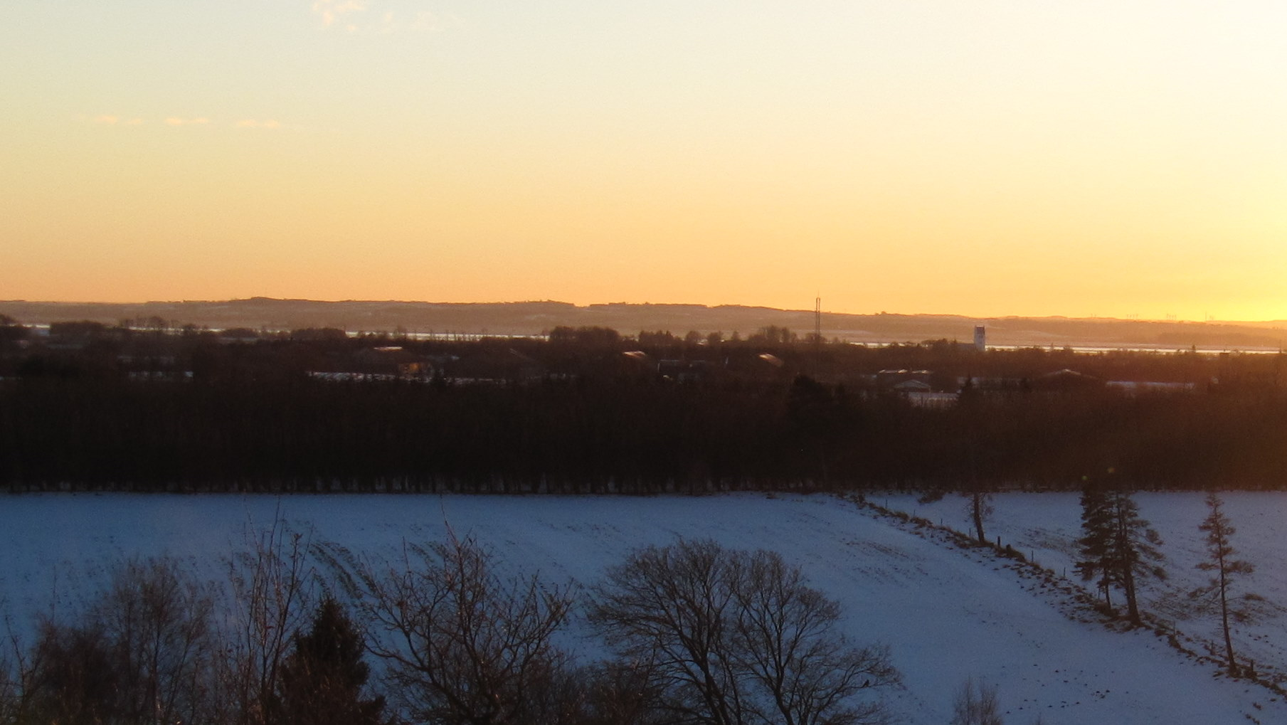 View from Hellig Høje (In the background Vester Hassing and the Limfjord)